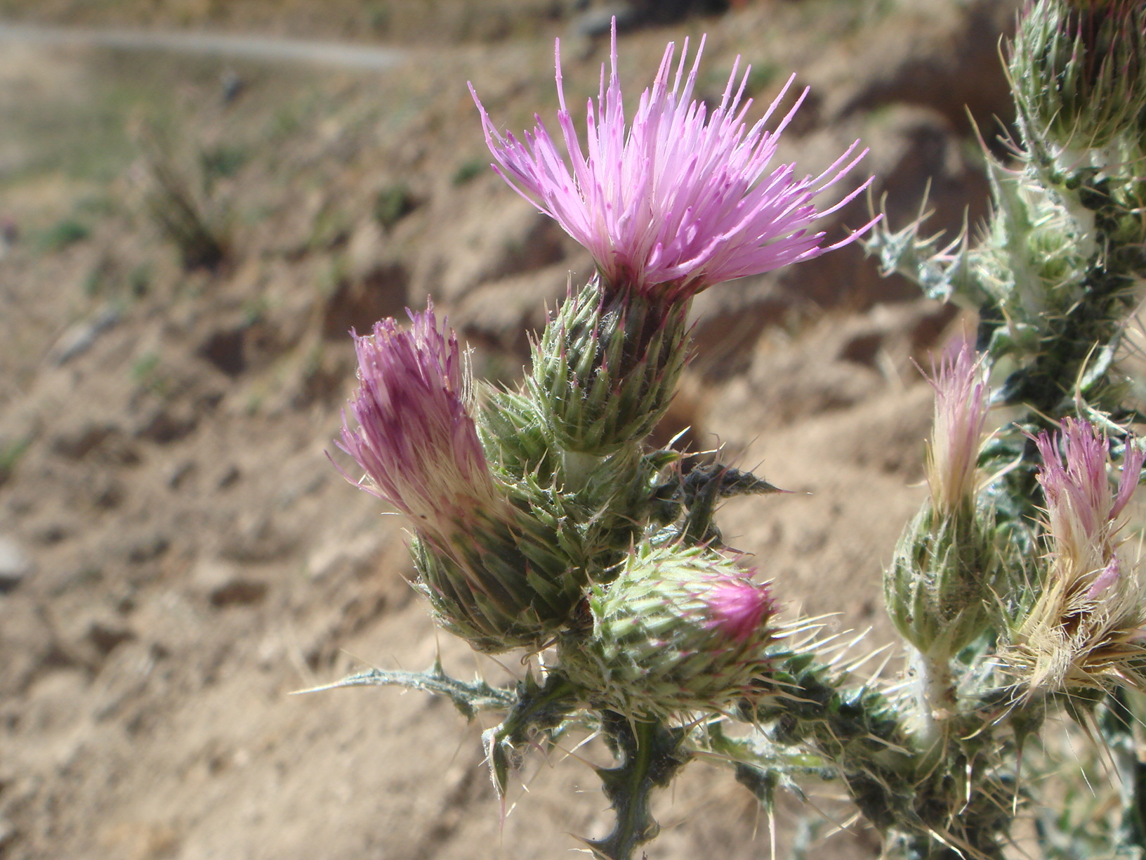 Carduus carpetanus. Spain, Sierra de Ávila